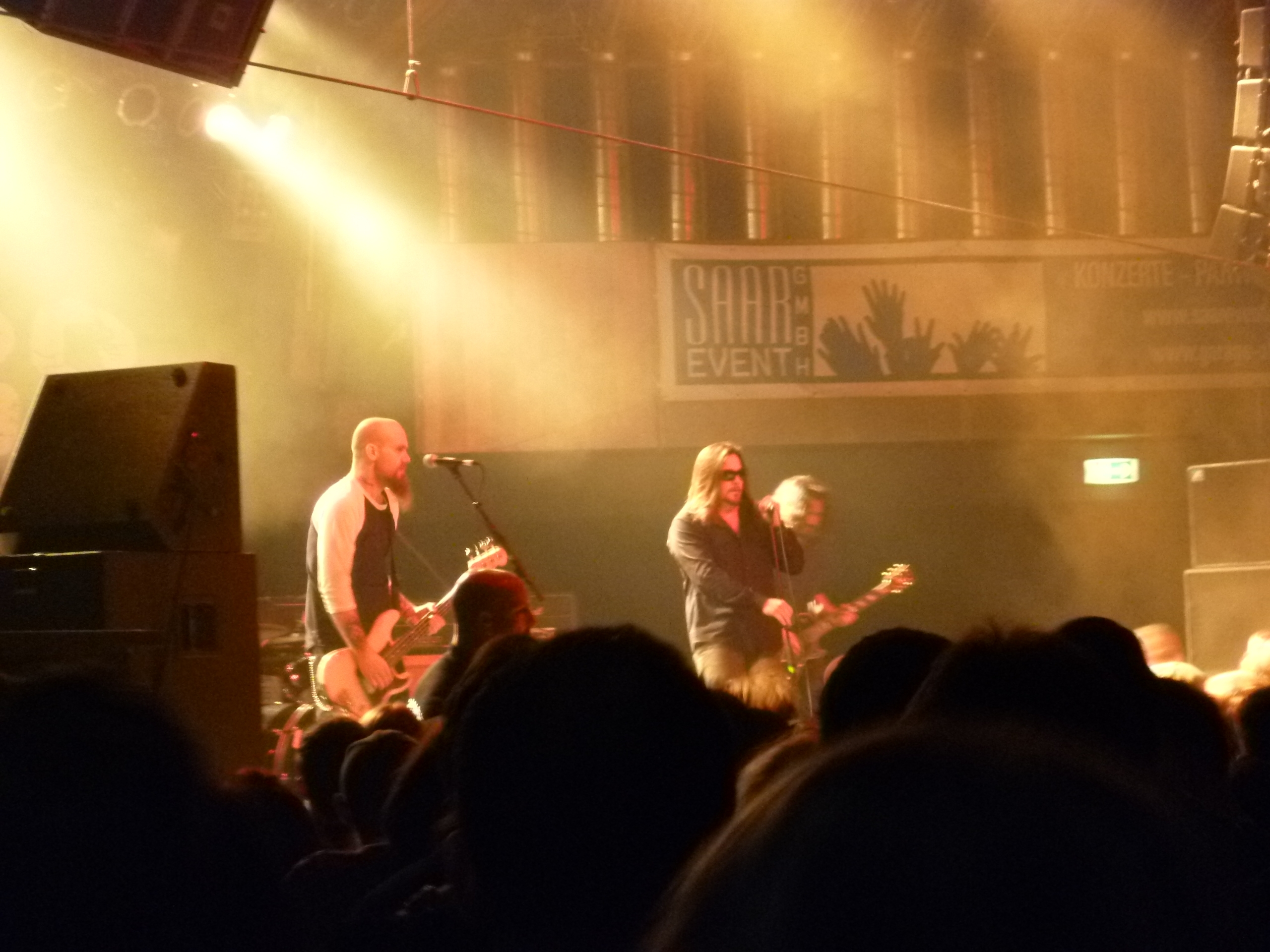 Kyuss Lives live at the Garage Saarbrücken